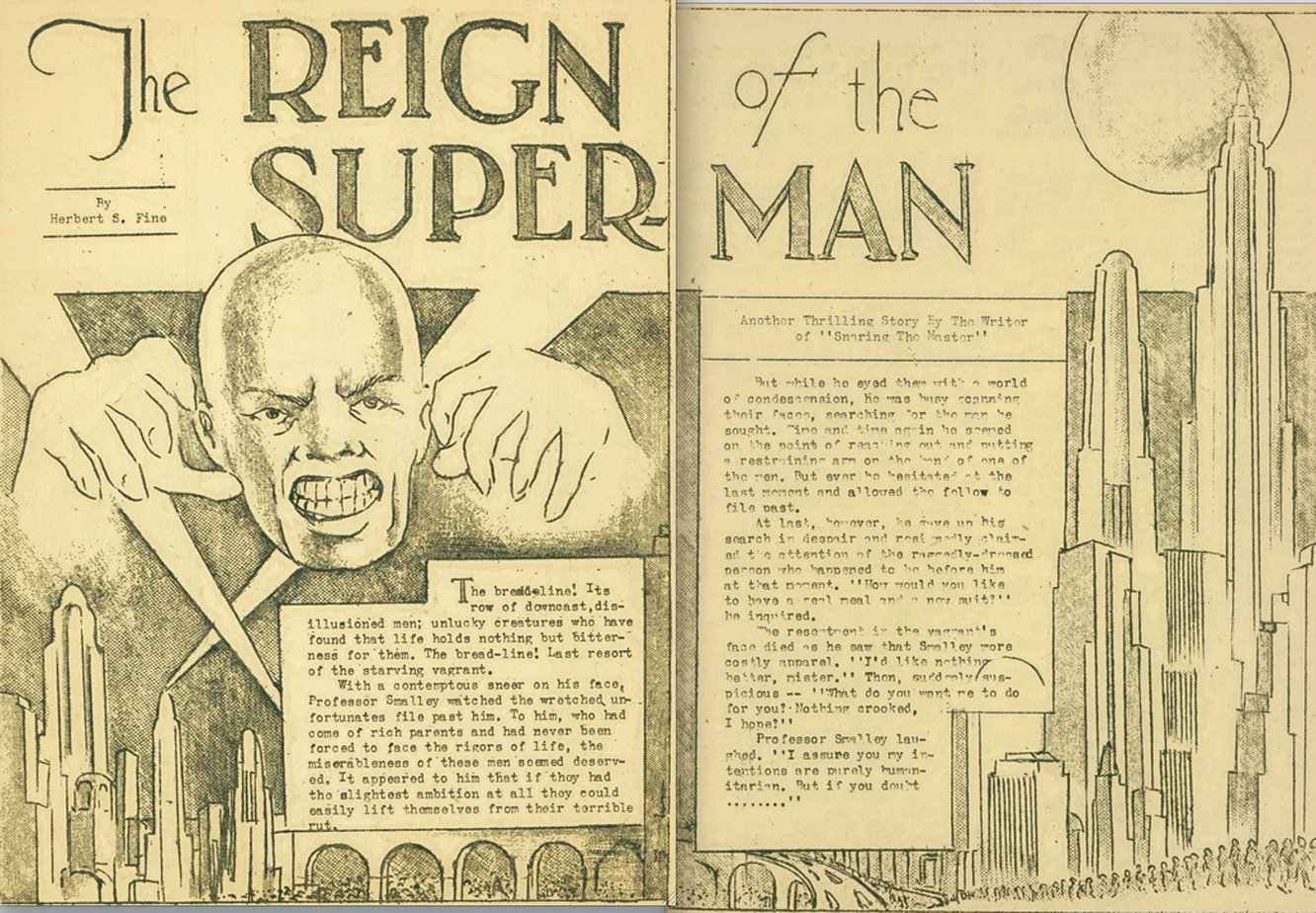 First two pages of the "The Reign of the Superman" short story by Jerry Siegel, illustrated by Joe Shuster. This story was self-published by Siegel in his fanzine, Science Fiction #3.